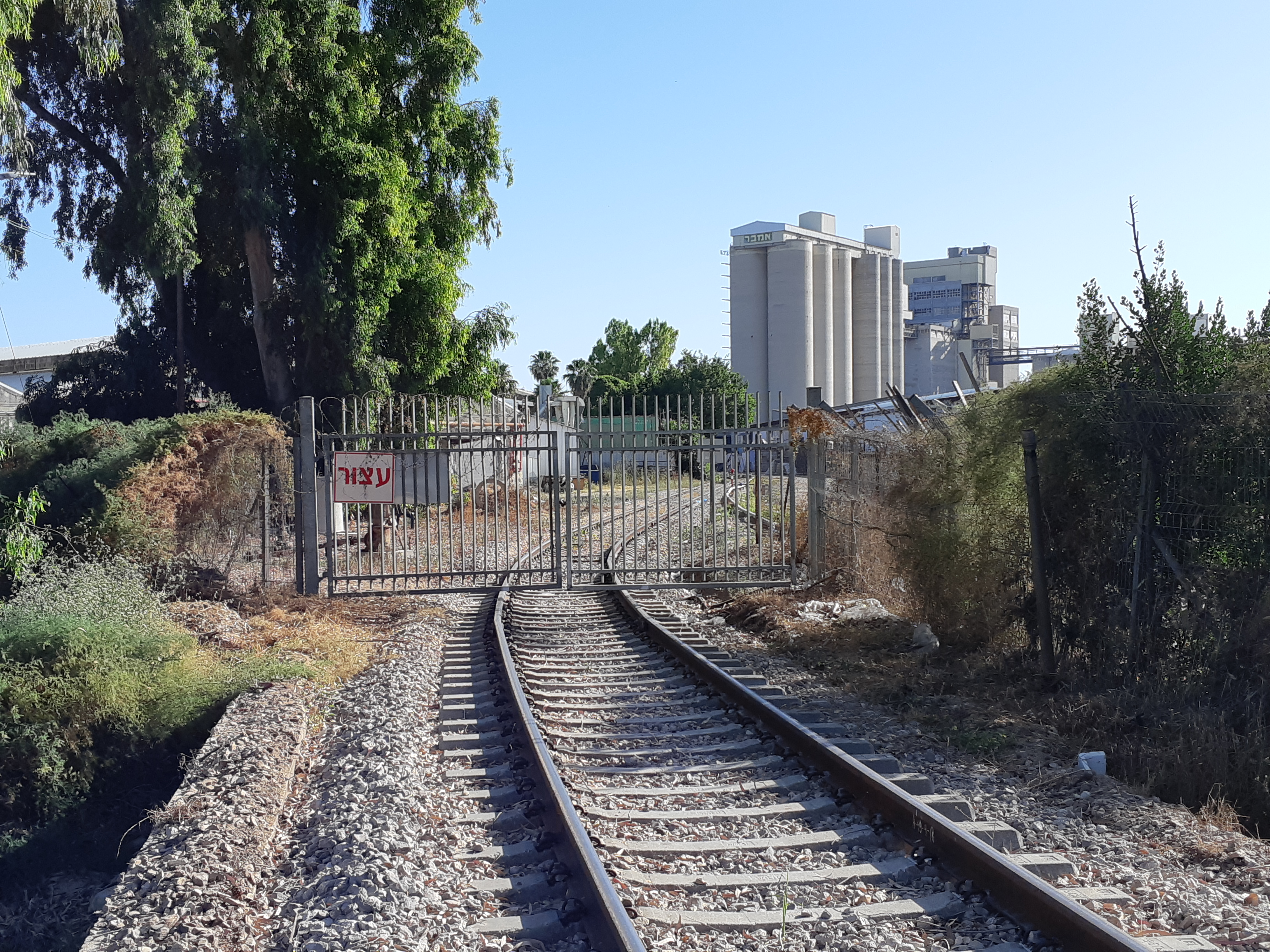 Railway gate to Ambar Feed Mill of Granot Central Cooperative From Hedera East Railway station